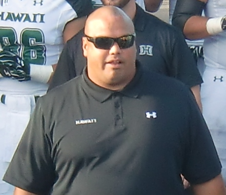 University of Hawaii football offensive line coach and former NFL player Chris Naeole in 2014.